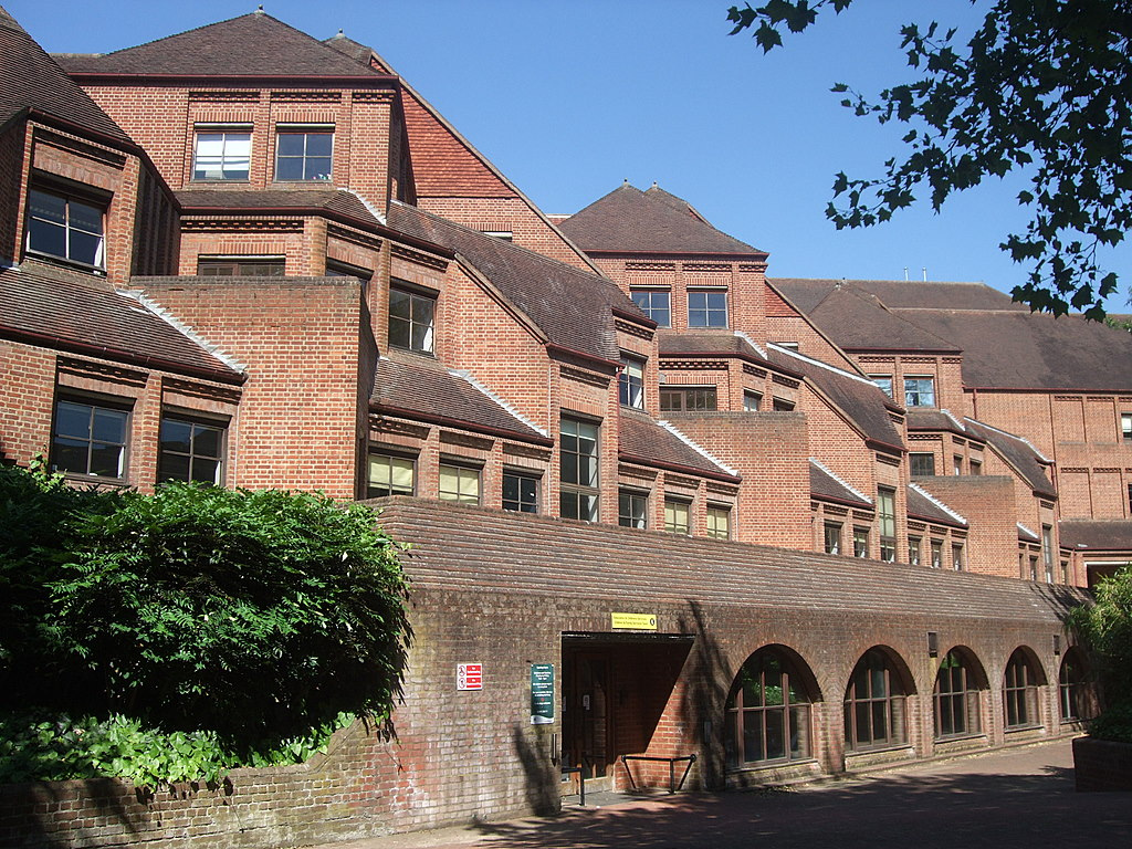 Hillingdon Civic Centre, exterior 3